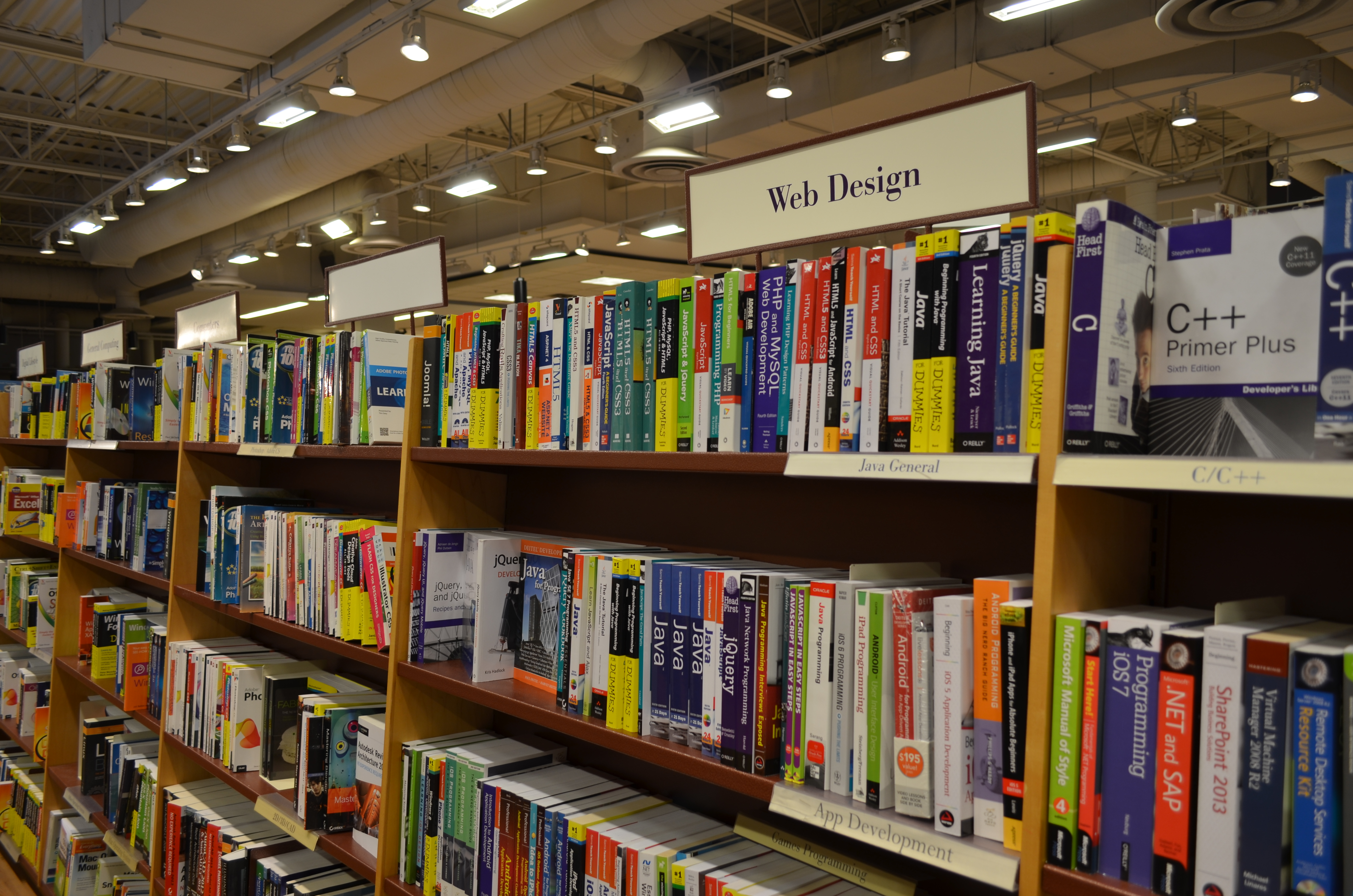 Web design books in Bayview Village Chapters.